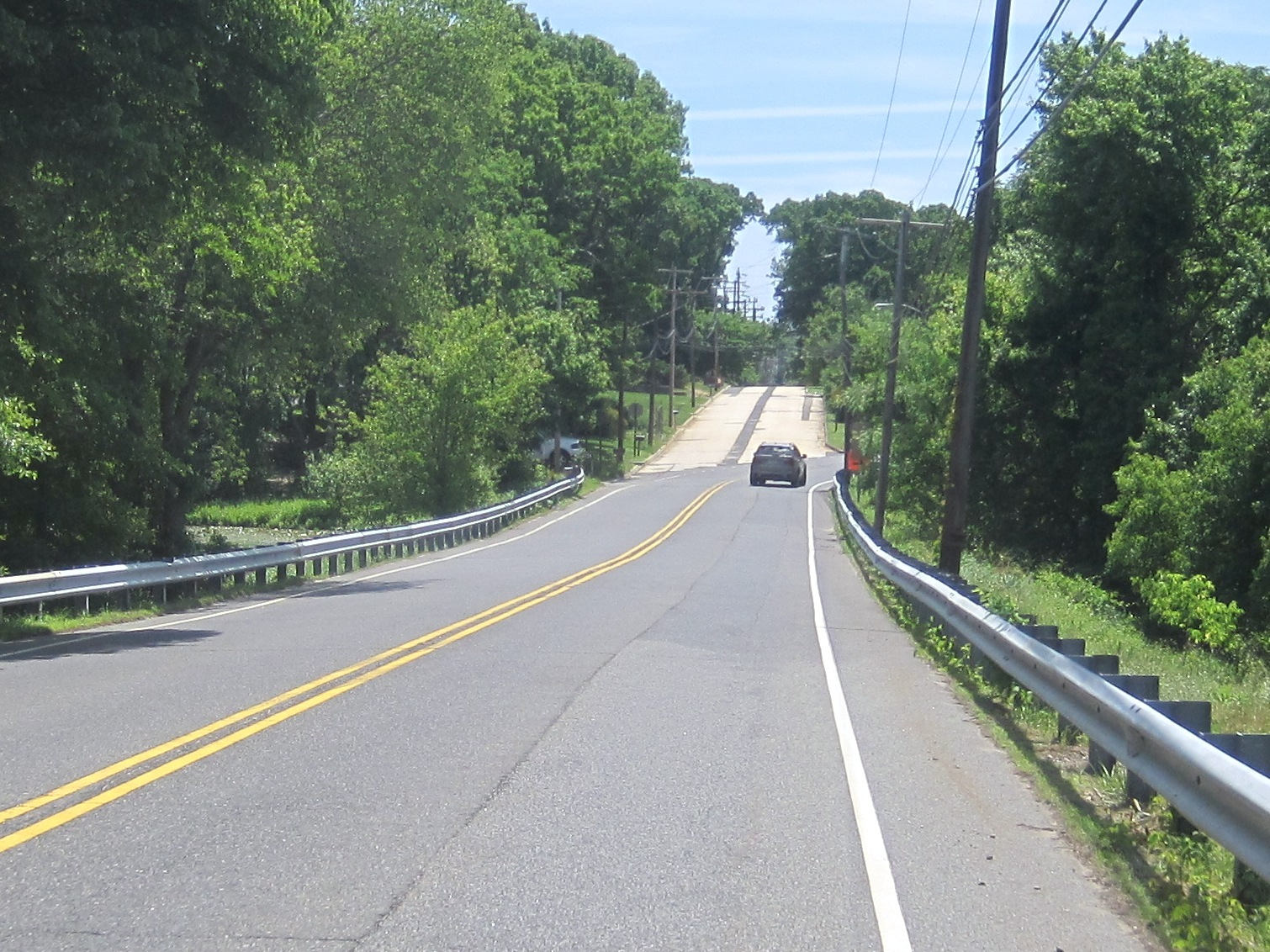 Traveling eastbound on County Route 524 in Wall Township, New Jersey. CR 524 curves to the right here and the former alignment of the route prior to the construction of the Garden State Parkway continues ahead as a concrete road.